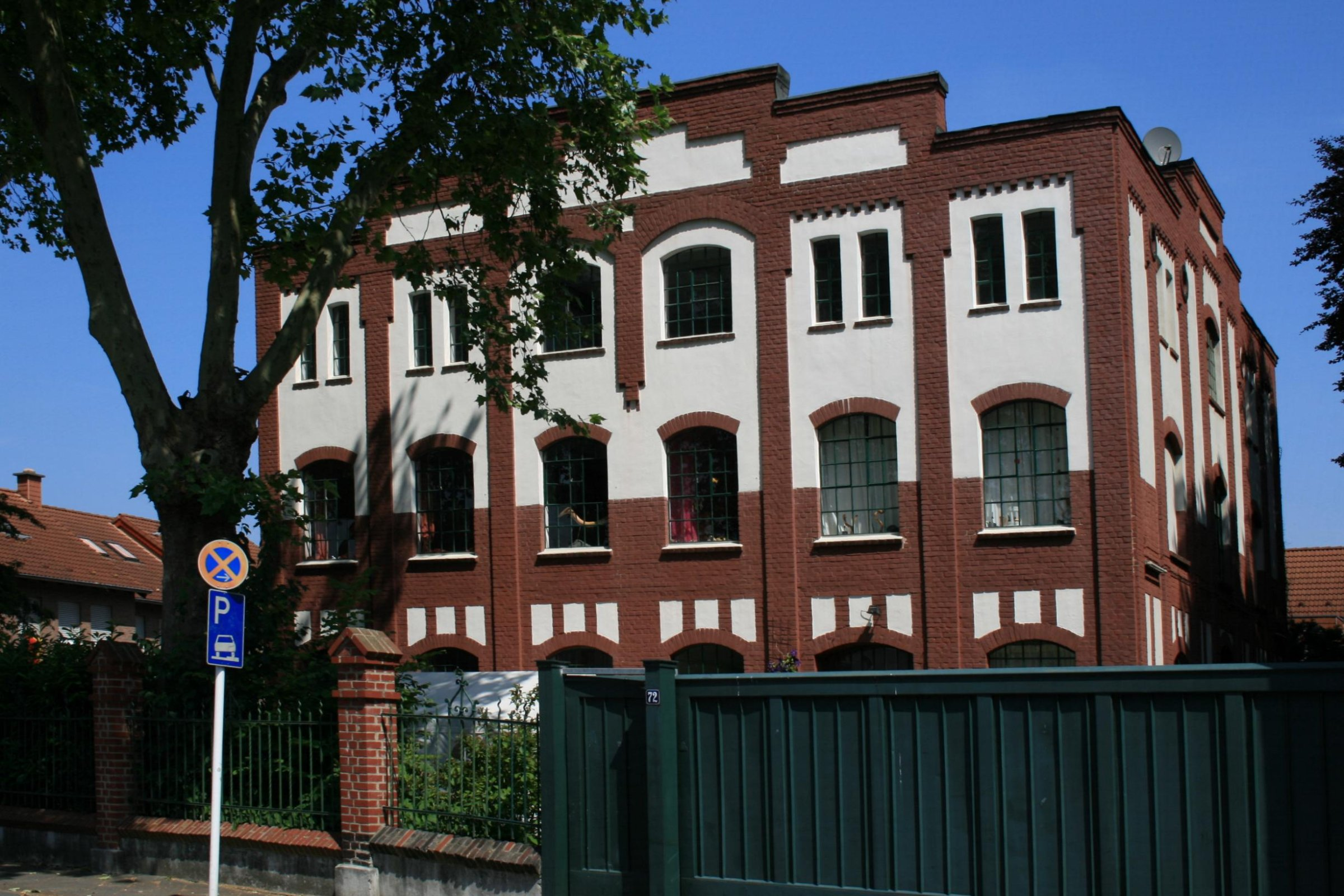 Cultural heritage monument No. W 010 in Mönchengladbach